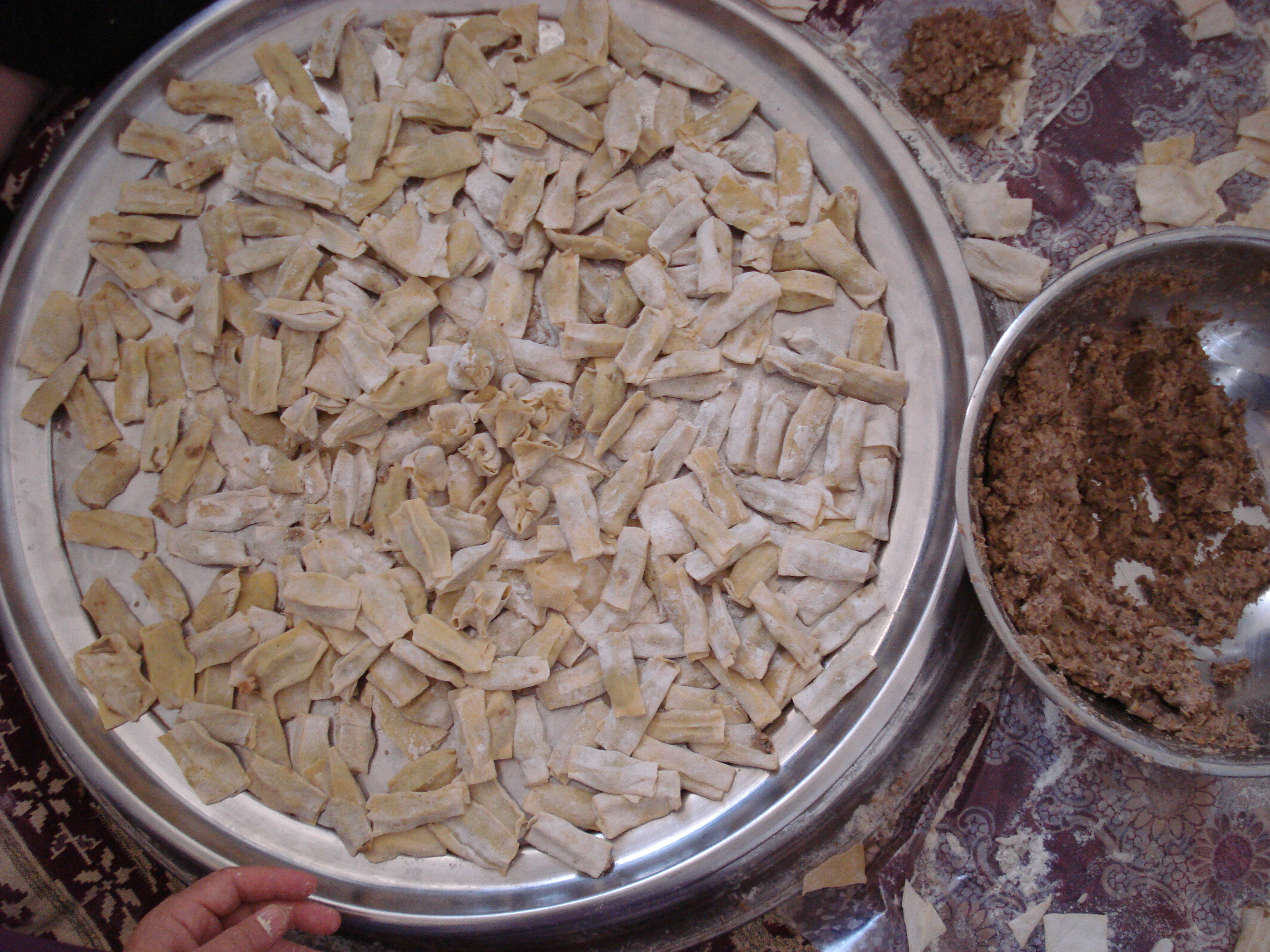 Aash Joush Para.iranian traditional food